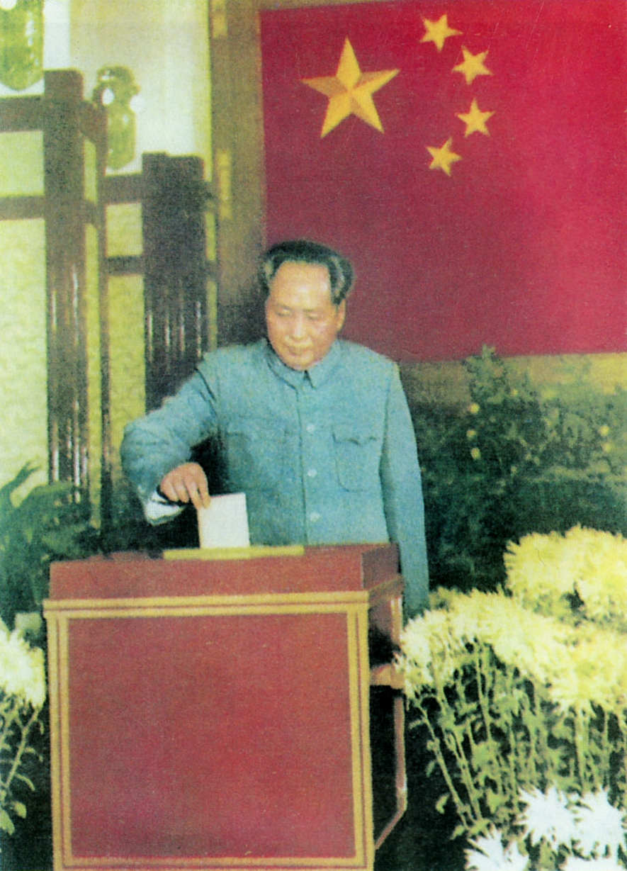 Photo of Mao Zedong voting, from Quotations from Chairman Mao Tse-Tung